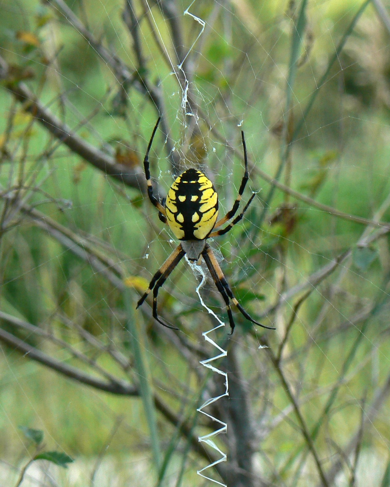 Argiope aurantia Yellow Garden Spider